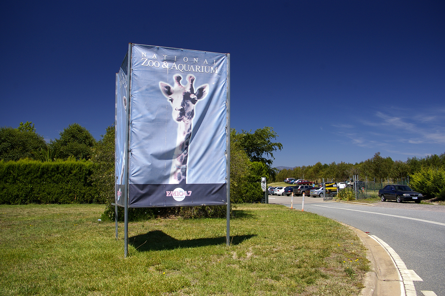 National Zoo & Aquarium in Yarralumla, Australian Capital Territory